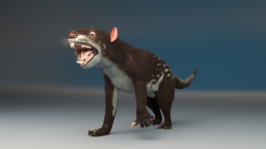 a 3d restoration